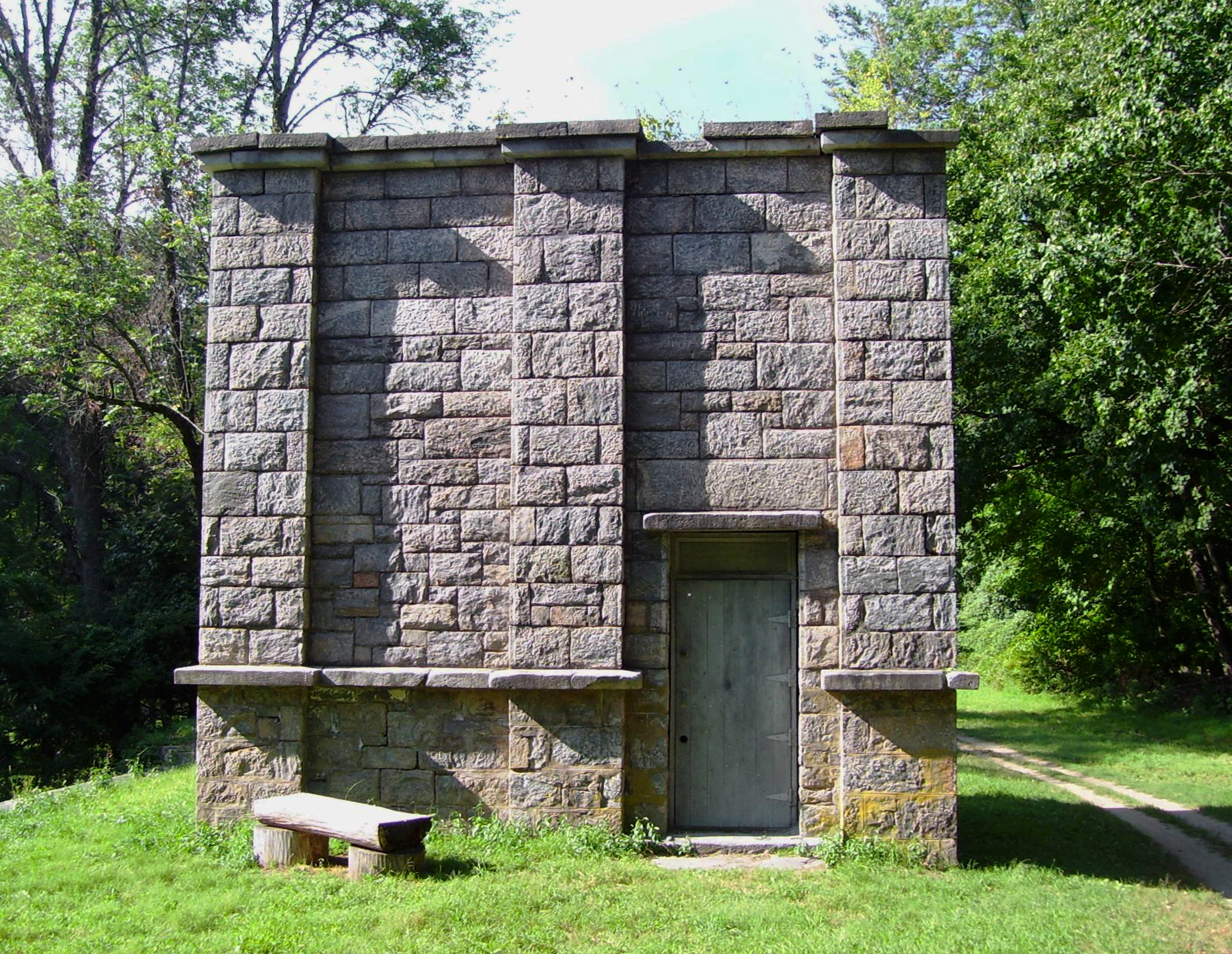 A weir chamber of the Croton Aqueduct in Sleepy Hollow, New York. These chambers – another is located in Ossining, New York – were used to empty the aqueduct for maintanece by diverting the water to a nearby waterway, in this case the Pocantico River. The line could be emptied in as little as two hours, according to a descriptive display at the Ossining chamber. The aqueduct is no longer in use for water delivery, and the right-of-way is now a New York State Historic Park used for walking, jogging and bicycling.